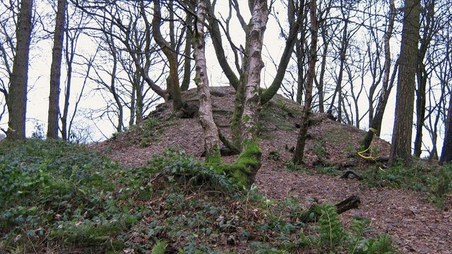 The Mote near Cumbernauld House The Mote or "The Old Comyn Motte" is about 400 yds NE of Cumbernauld House. Partially destroyed due to the excavation of limestone - the motte is surrounded by dozens of small pits.